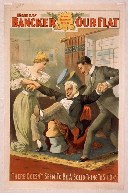 Poster of the play Our Flat with Emily Bancker. Lithograph, color, 74 x 48 cm. Caption: “There doesn't seem to be a solid thing to sit on!”